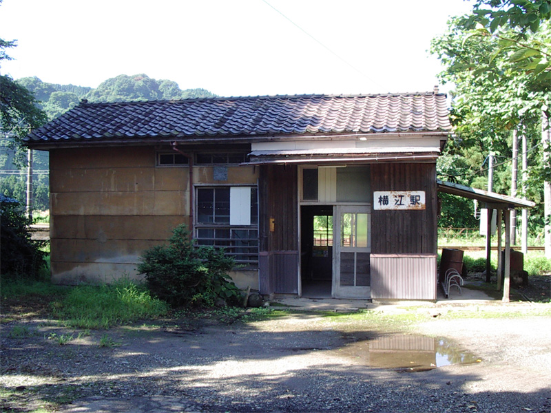 Yokoe Station on the Toyama Chiho Railway Tateyama Line in Tateyama, Toyama Prefecture, Japan